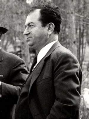 Inventarski broj: 1971 458 079